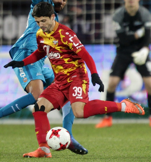 Igor Gorbatenko with FC Arsenal Tula in a game against FC Zenit Saint Petersburg.